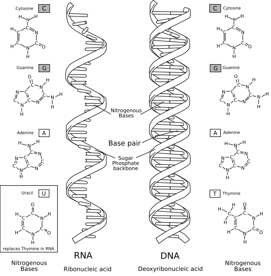 Guanine and Adenine are corrected according to their respective articles in this version. Redrew using Inkscape.